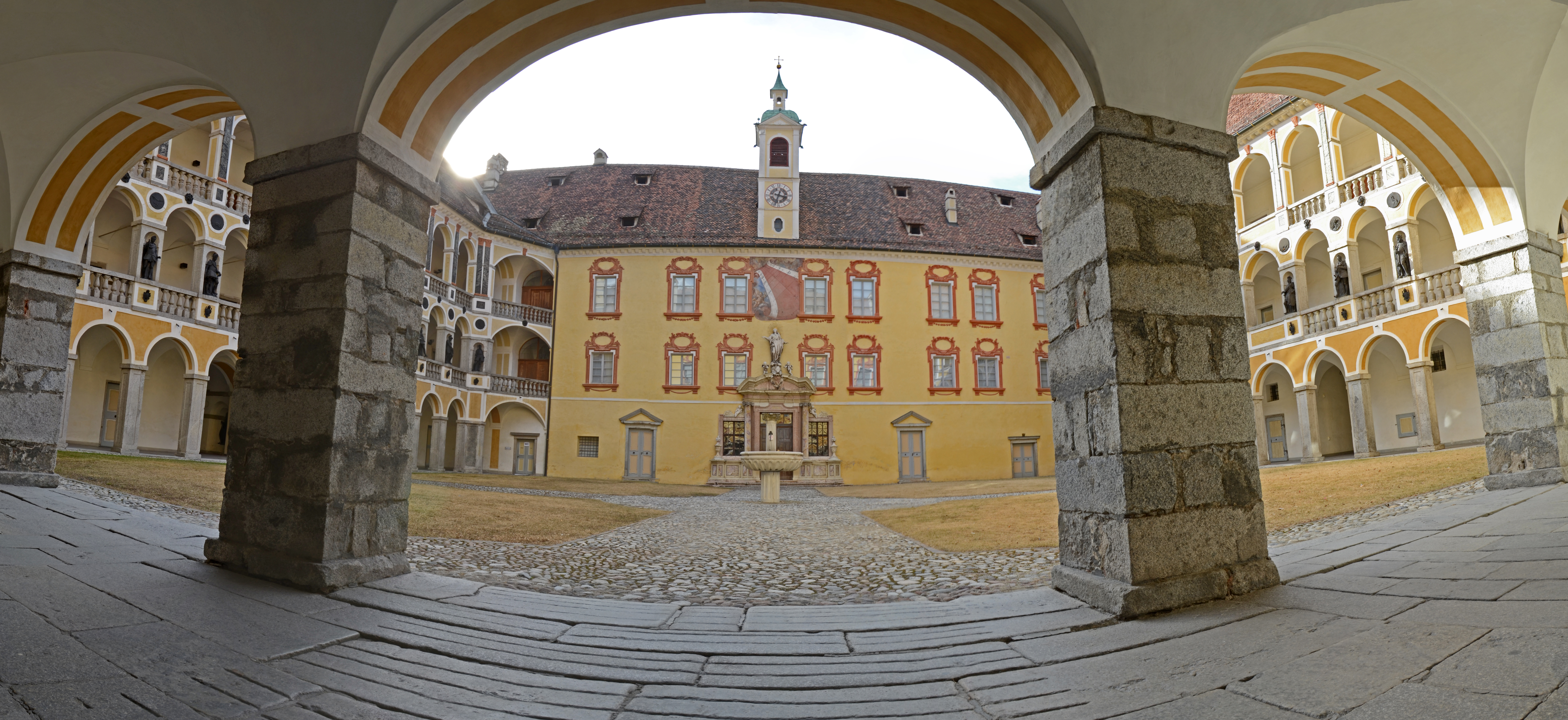 Hofburg in Brixen